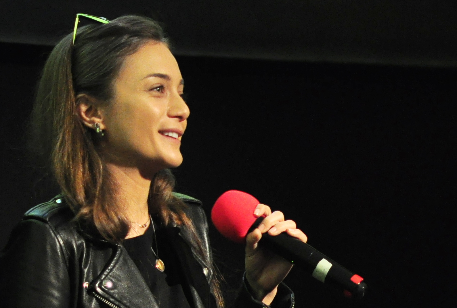 Turkish actress Damla Sönmez appearing during the 2019 Seattle International Film Festival at the SIFF Cinema Uptown, Seattle, Washington, U.S., after a showing of the film Sibel, in which she has the starring role.